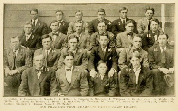 The 1909 San Francisco Seals, a minor league baseball team from San Francisco, California